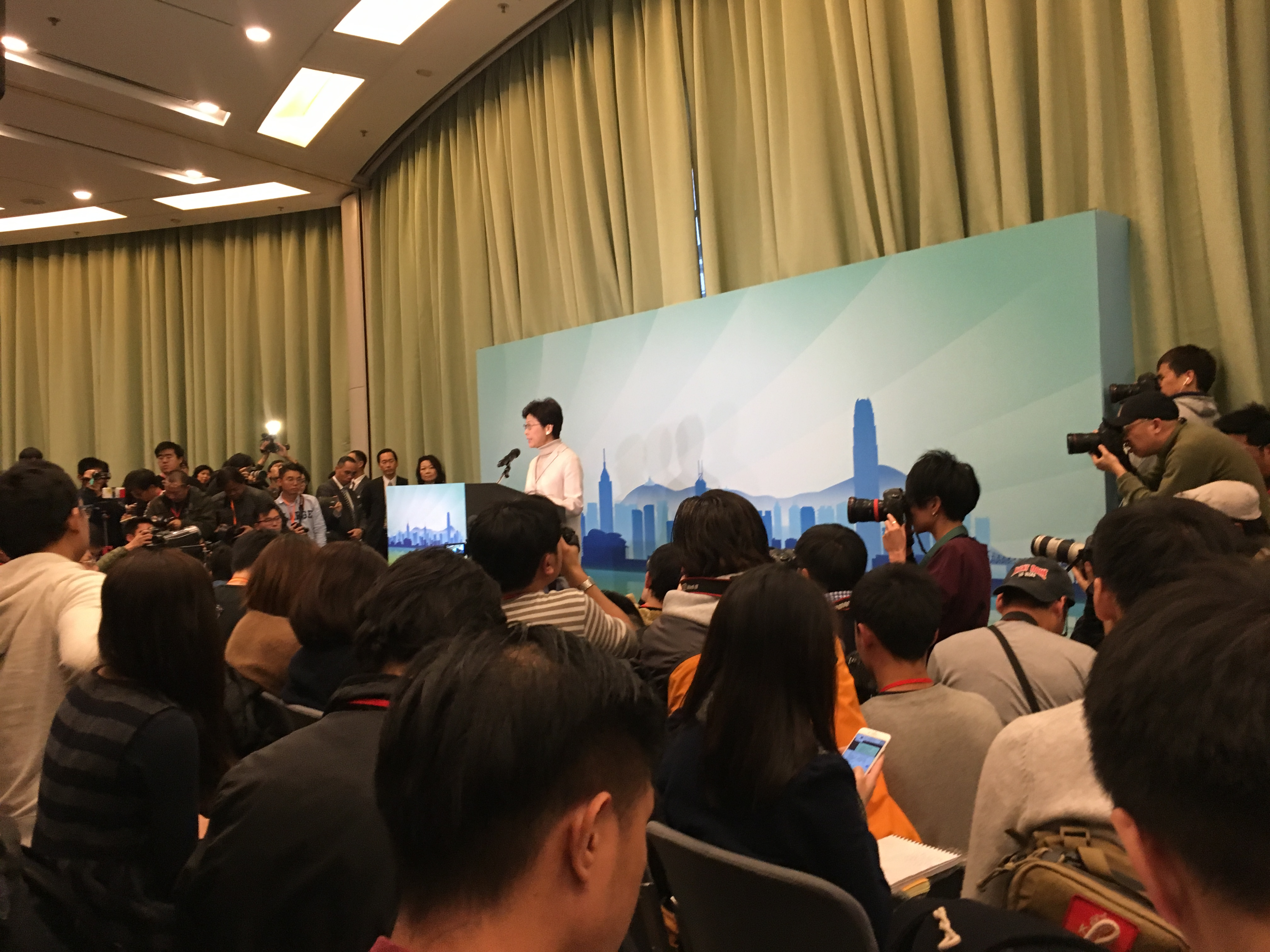 Carrie Lam announced she will participate in 2017 Hong Kong Chief Executive Election at the press conference held on 16 January 2017